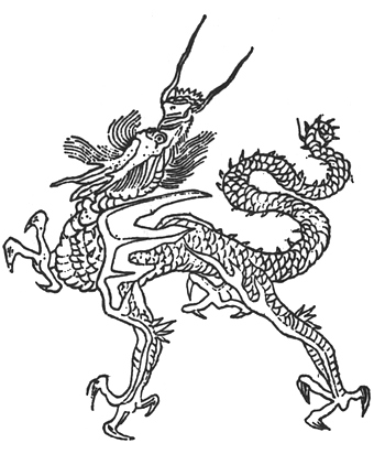 "Yinglong" (応龍) from the Shan Hai Jing (山海经, Chinese picture)